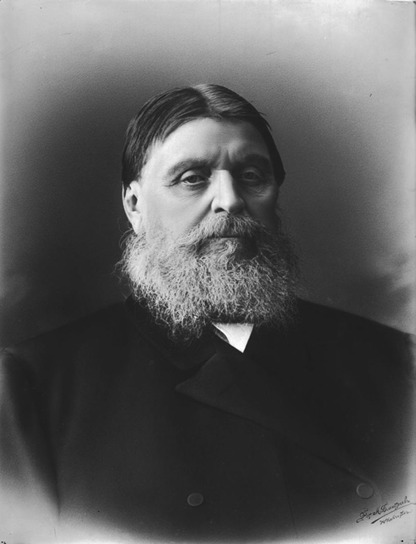 Nikolay Bugrov